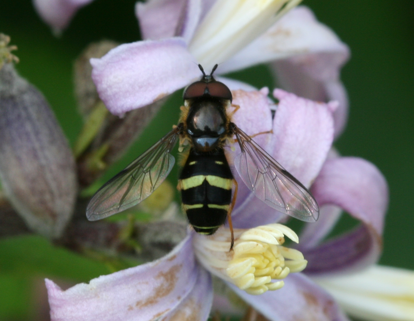 A male Dasysyrphus tricinctus